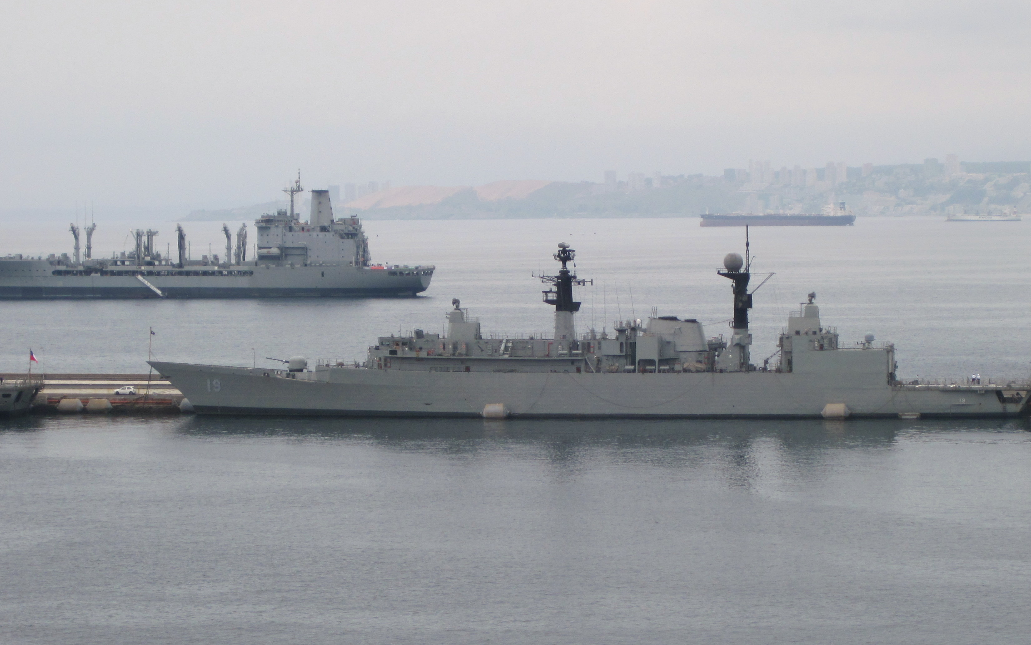 Ships in Valparaíso Harbour, Chile